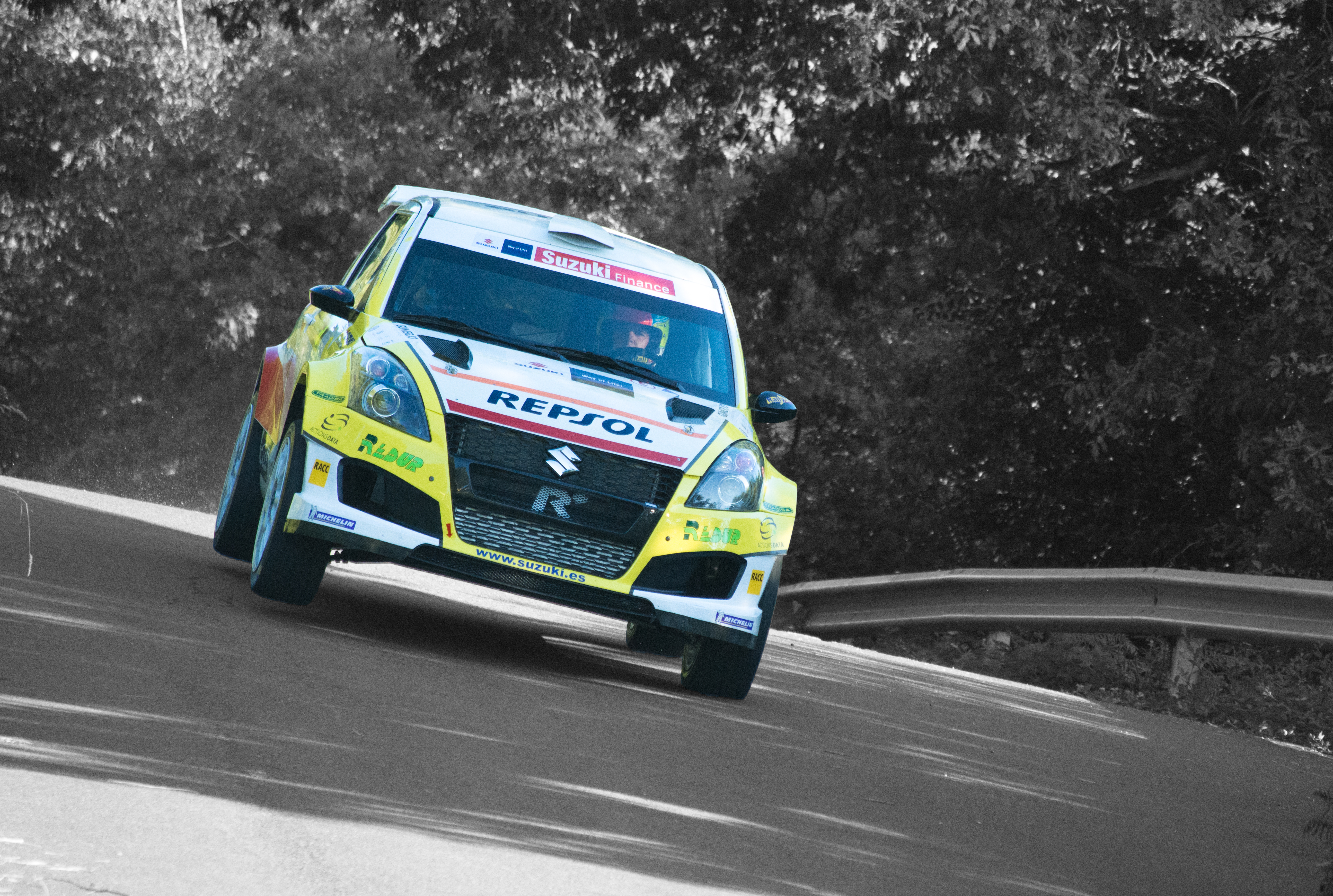 A Cañiza, Gorka Antxustegi in Rally Sur do Condado 2016